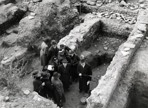 Archaeological site of the Thermenmuseum, Heerlen, Limburg, the Netherlands.